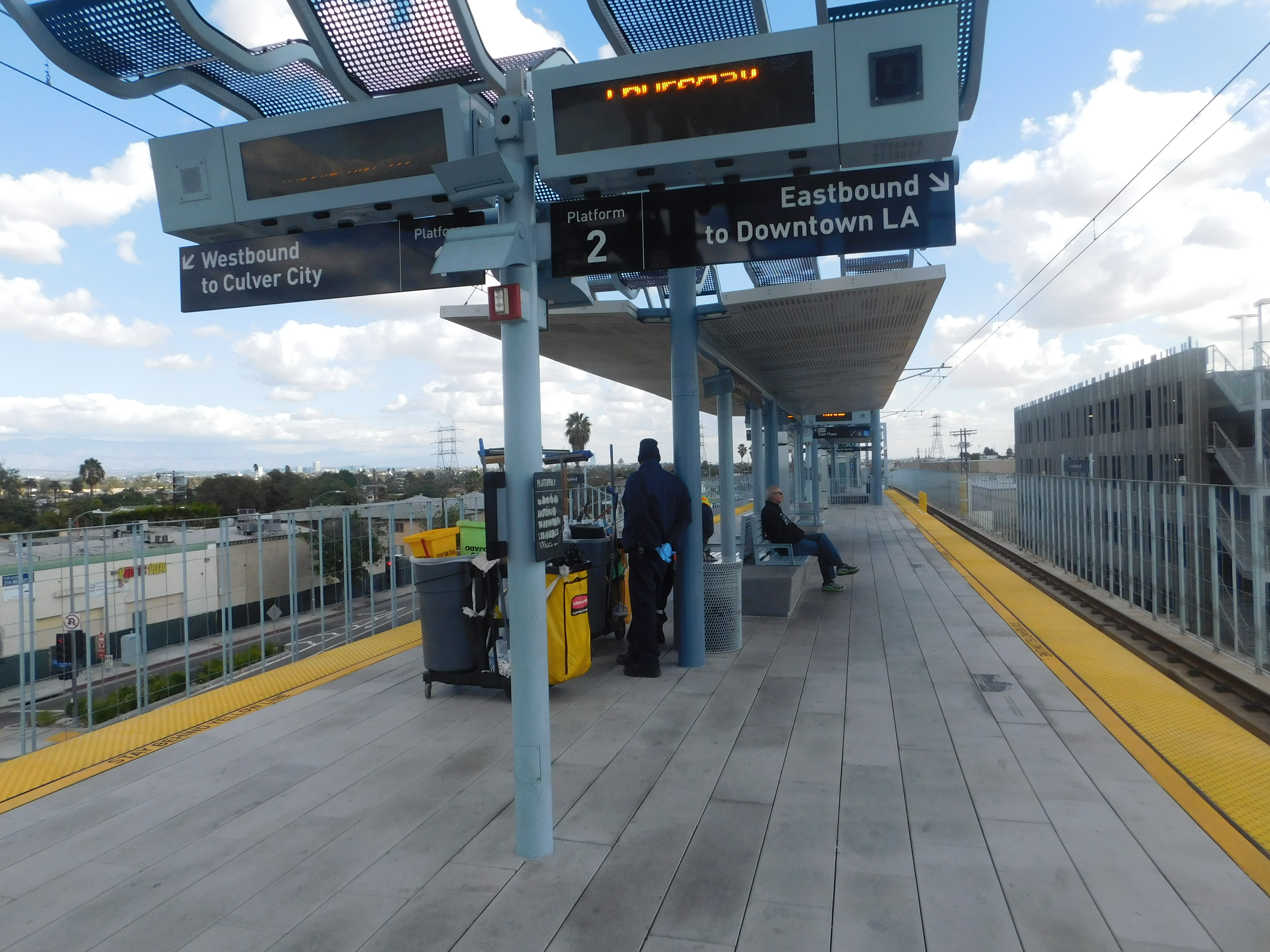 The La Cienenga/Jefferson station on the Expo Line in Los Angeles, California.